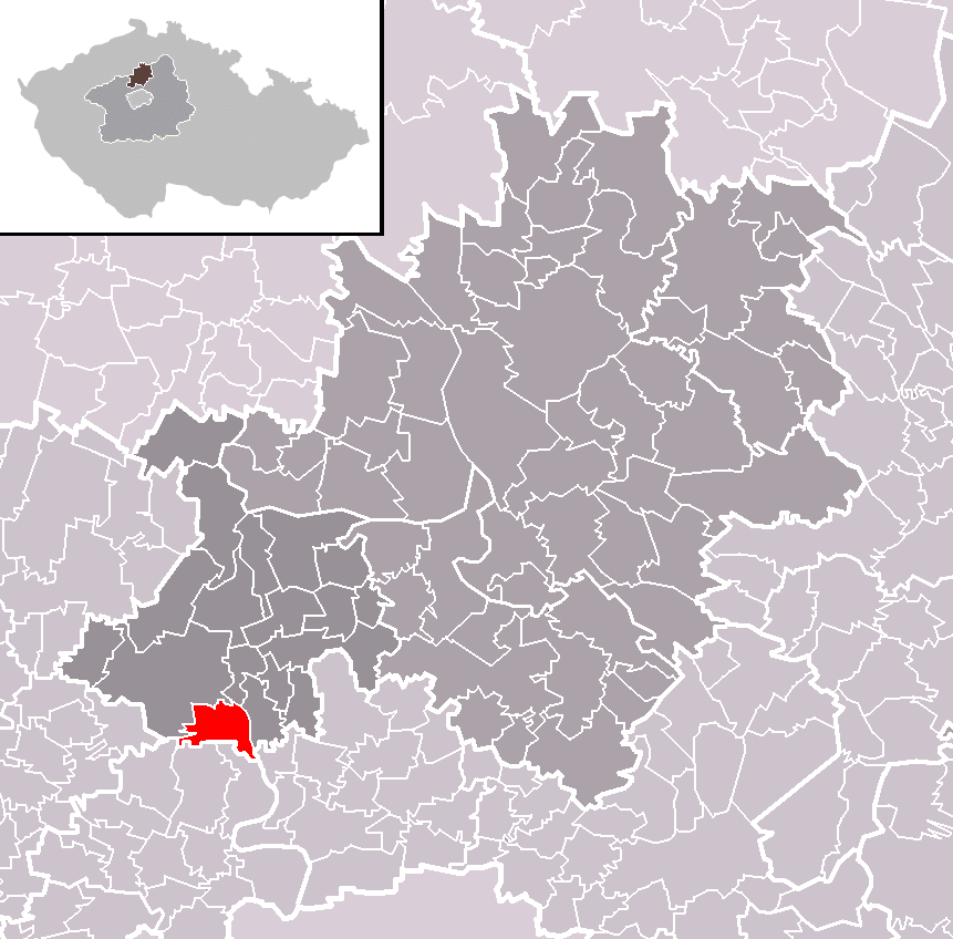 Location of Dolany municipality within Mělník District and administrative area of Kralupy nad Vltavou as a Municipality with Extended Competence.